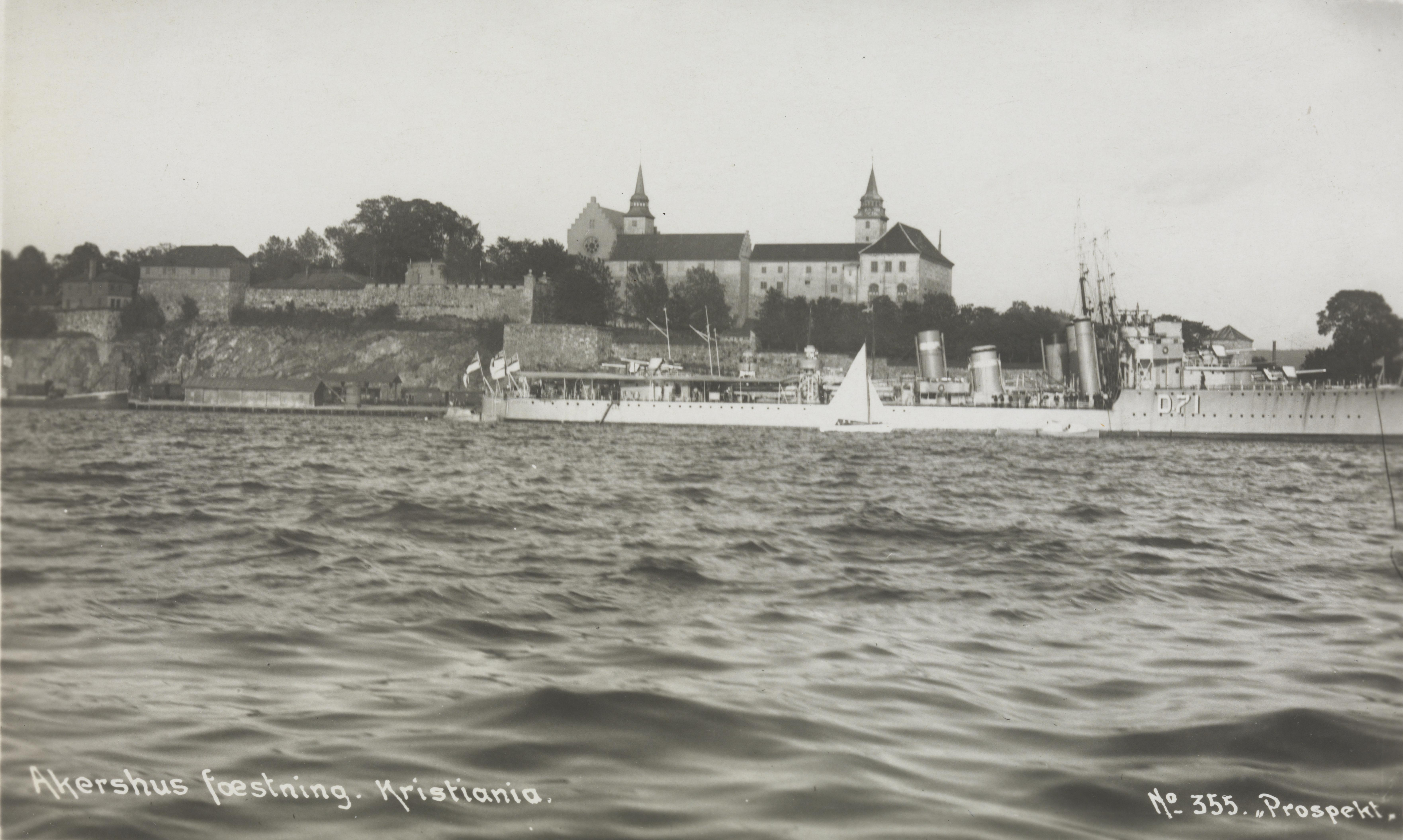 The picture is taken from the National Library's image collection Akershus Fortress, Akershuskaia, Oslo, Norway